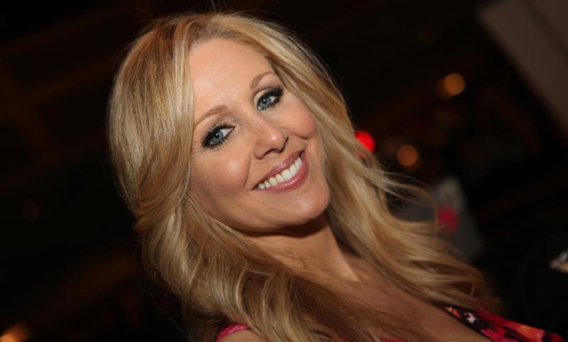 Discovered I still have a set of nearly 1200 pics to sort through (all from expo). I don't think any of these are dups of what's been posted. Photos taken at Hard Rock Hotel & Casino Las Vegas January 2012. Thanks for all the feedback on images. Happy to see those that have been tweeting them to their followers.